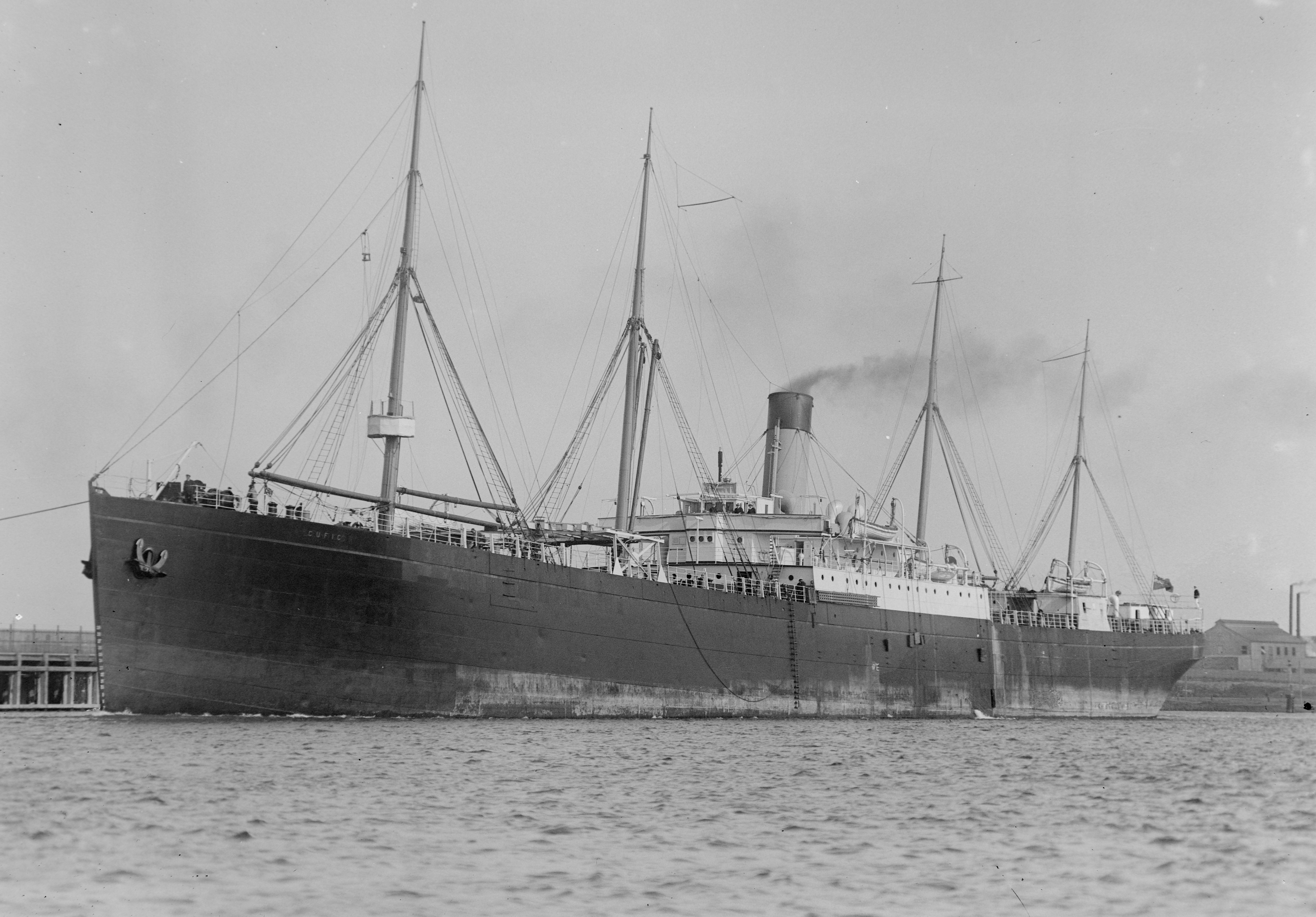 The steamship and White Star Liner Cufic.